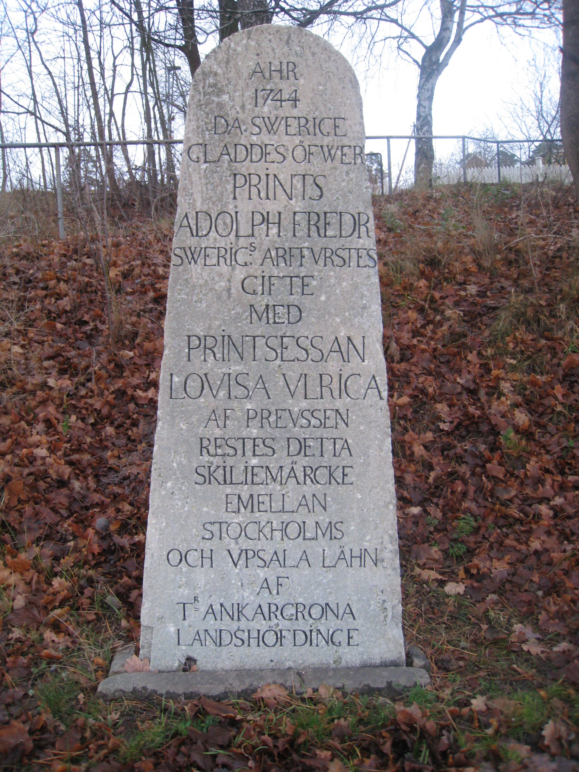 Minnesstenarna vid Enköpingsvägen i Stäket, Järfälla kommun, Stockholms län. Minnesstenarna står vid gångvägen upp mot berget. Den vänstra stenen berättar om prins Adolf Fredriks gifte med prinsessan Lovisa Ulrika 1744 och den högra stenen berättar om deras äldste son, den blivande kung Gustav III som gifte sig med den dansa prinsessan Sophia Magdalena 1766. Minnesstenarna är skyddade enligt lag och har nr 164 i Riksantikvarieämbetets fornminnesregister för Järfälla socken.